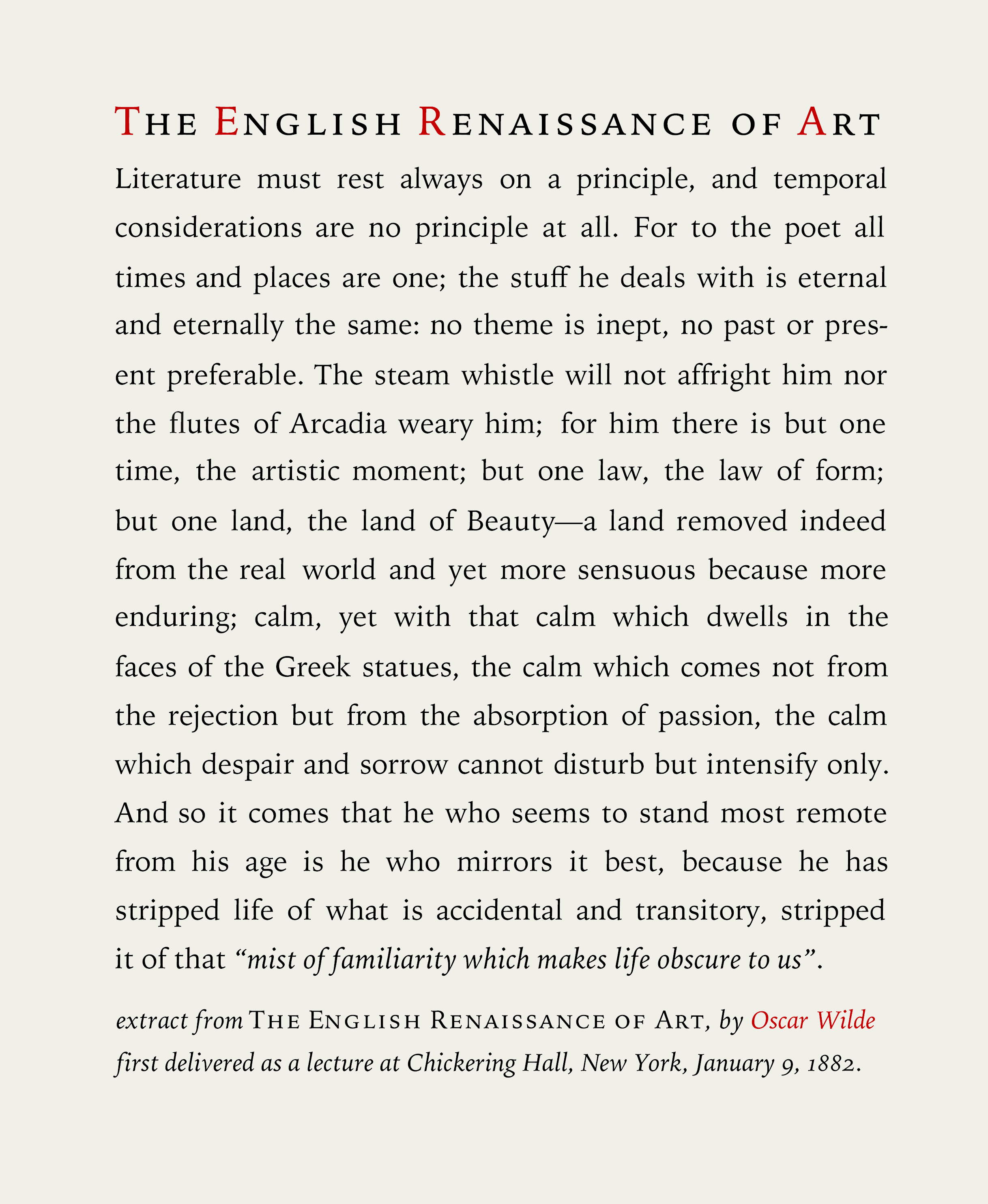 Typography sample. Justified setting version of original left-aligned/ragged right setting, Image:Oscar wilde english renaissance of art.png